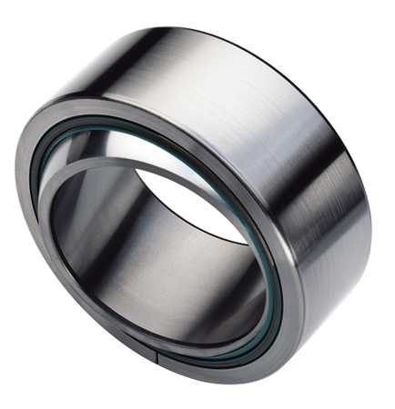 Spherical plain bearing, steel